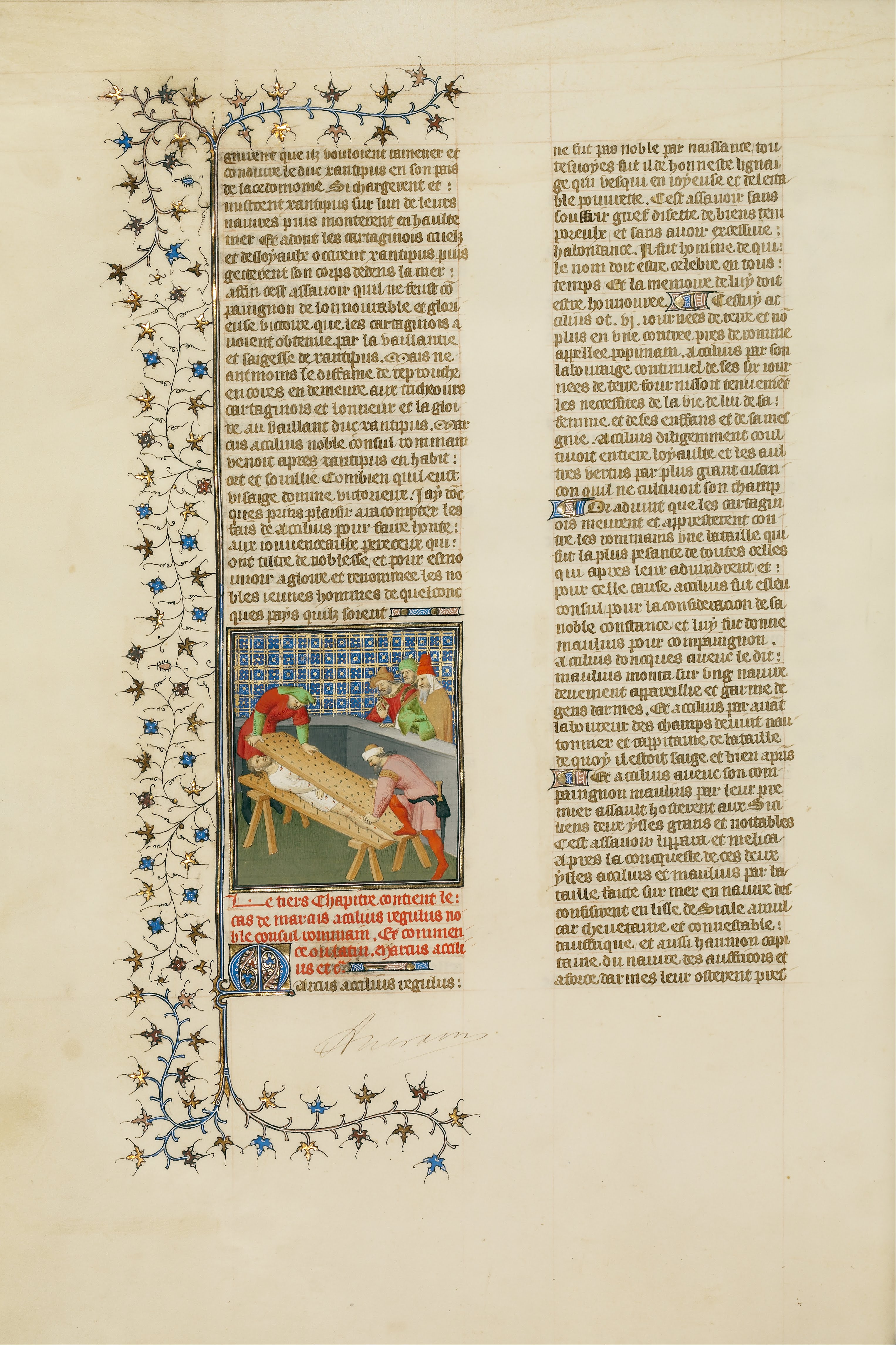 Death of Marcus Atilius Regulus (consul 294 BC)